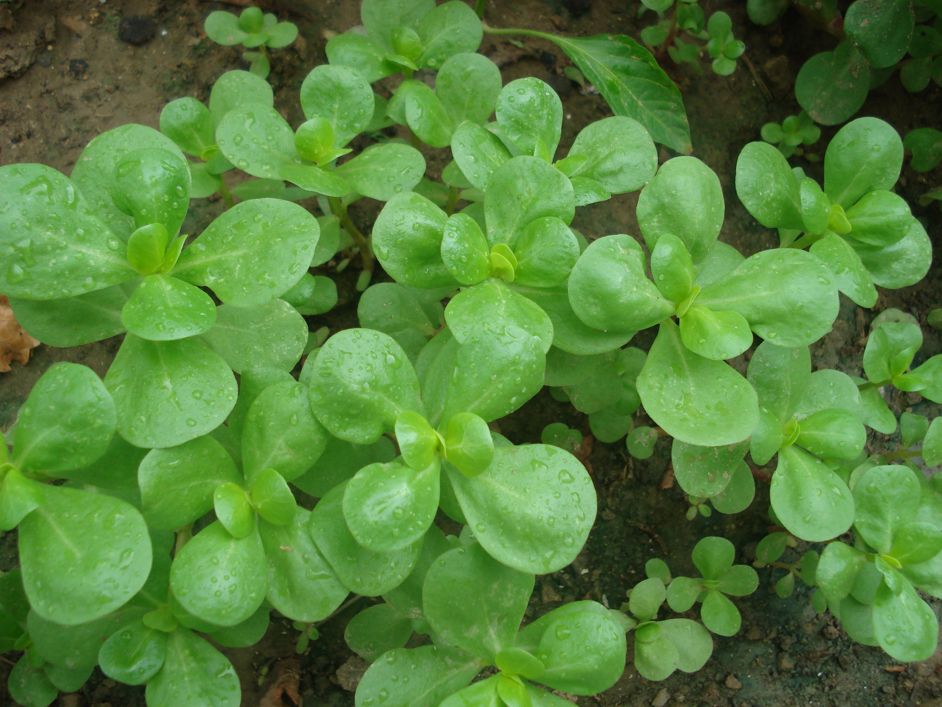 Portulaca oleracea from Turkey